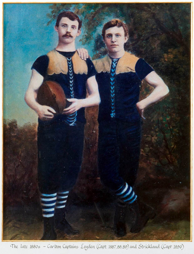 Tommy Leydin and Billy Strickland, captain and vice-captain of the Carlton FC.